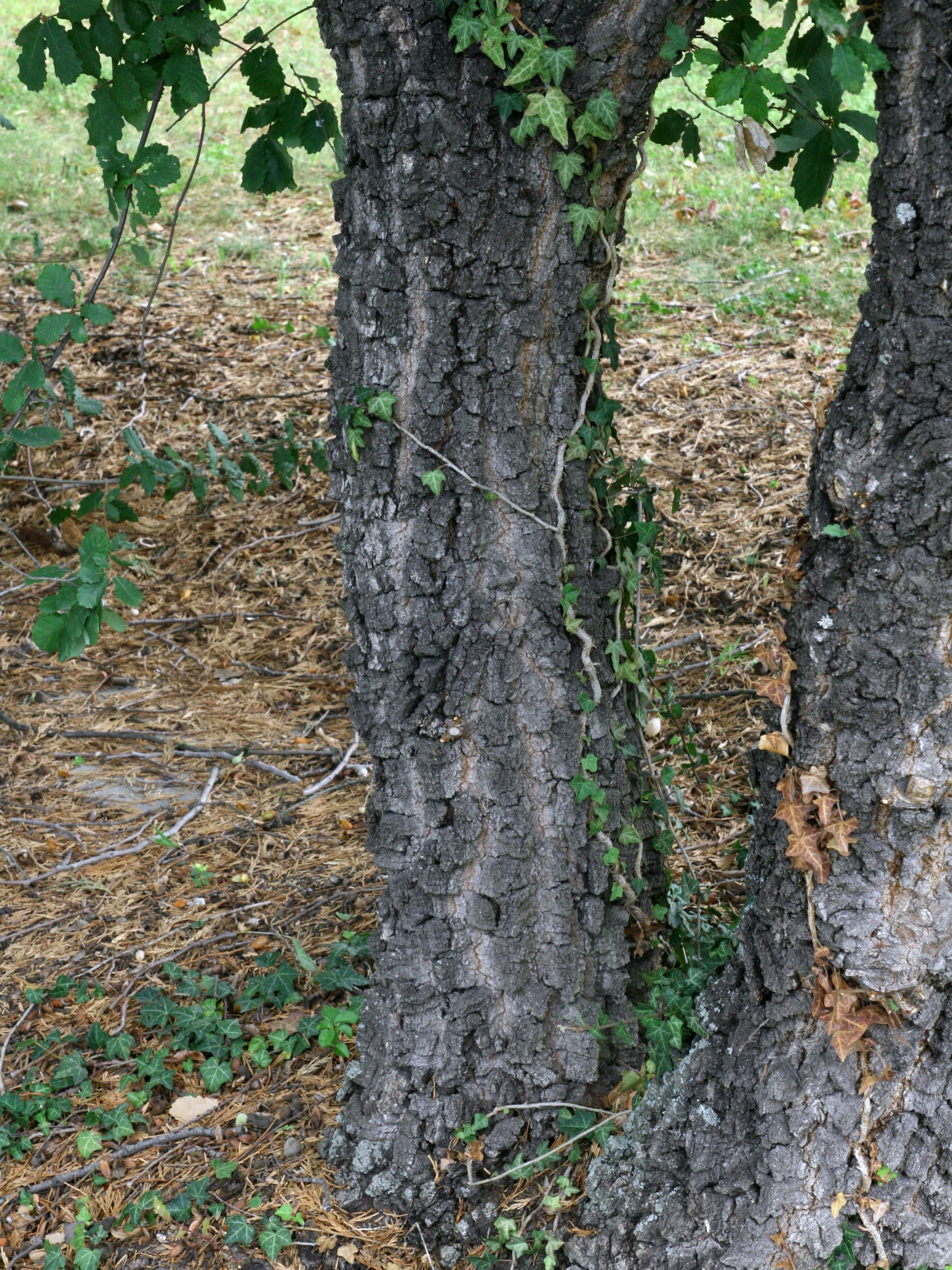 Trunk of Quercus faginea, Arboretum in Brno, Czech Republic